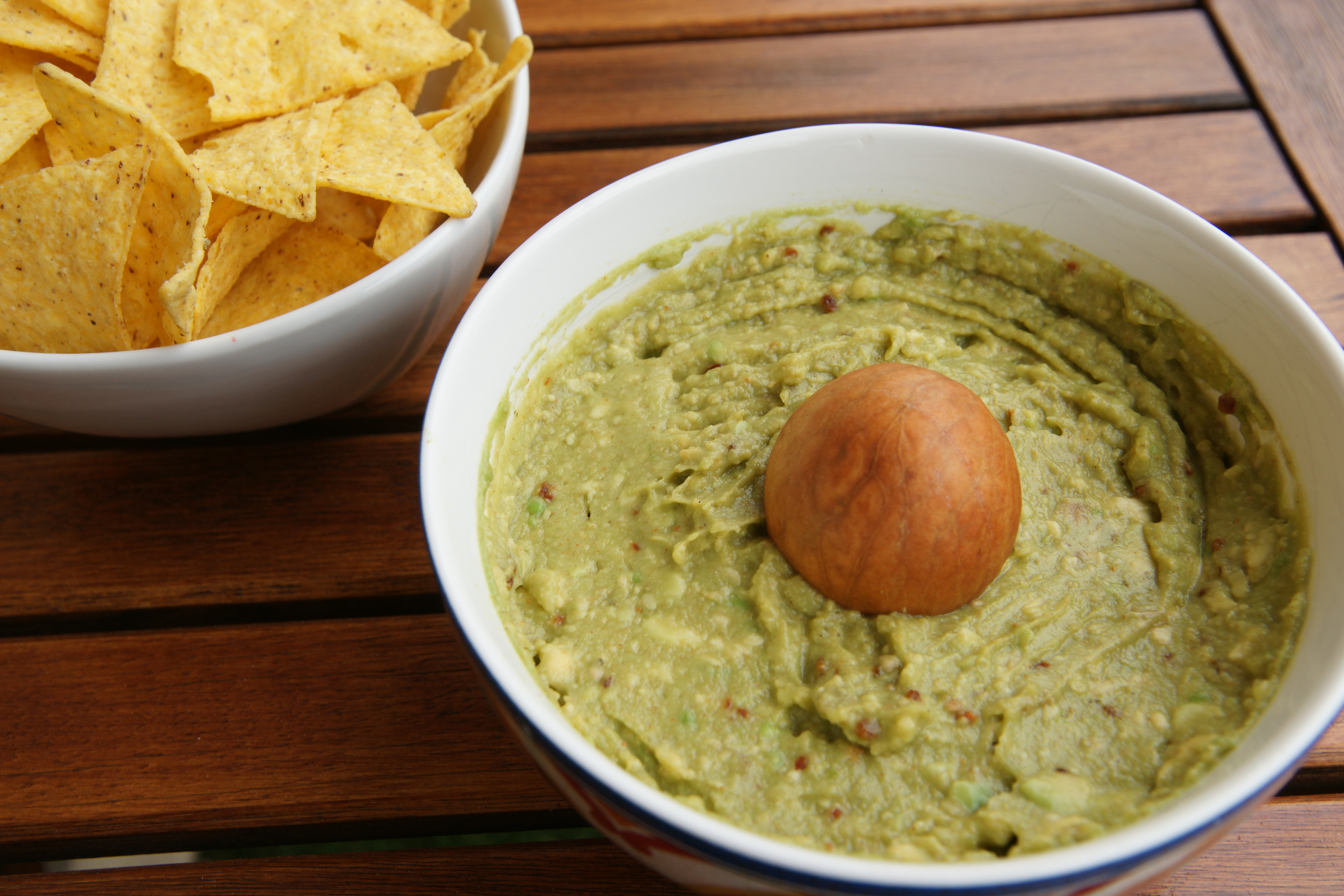 Guacamole with corn chips. The stone is said to prevent the rest of the preparation from oxydizing.